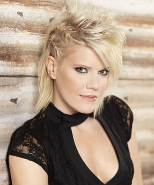 Caroline Larsson, Swedish singer and songwriter. Photo by Peter Knutson